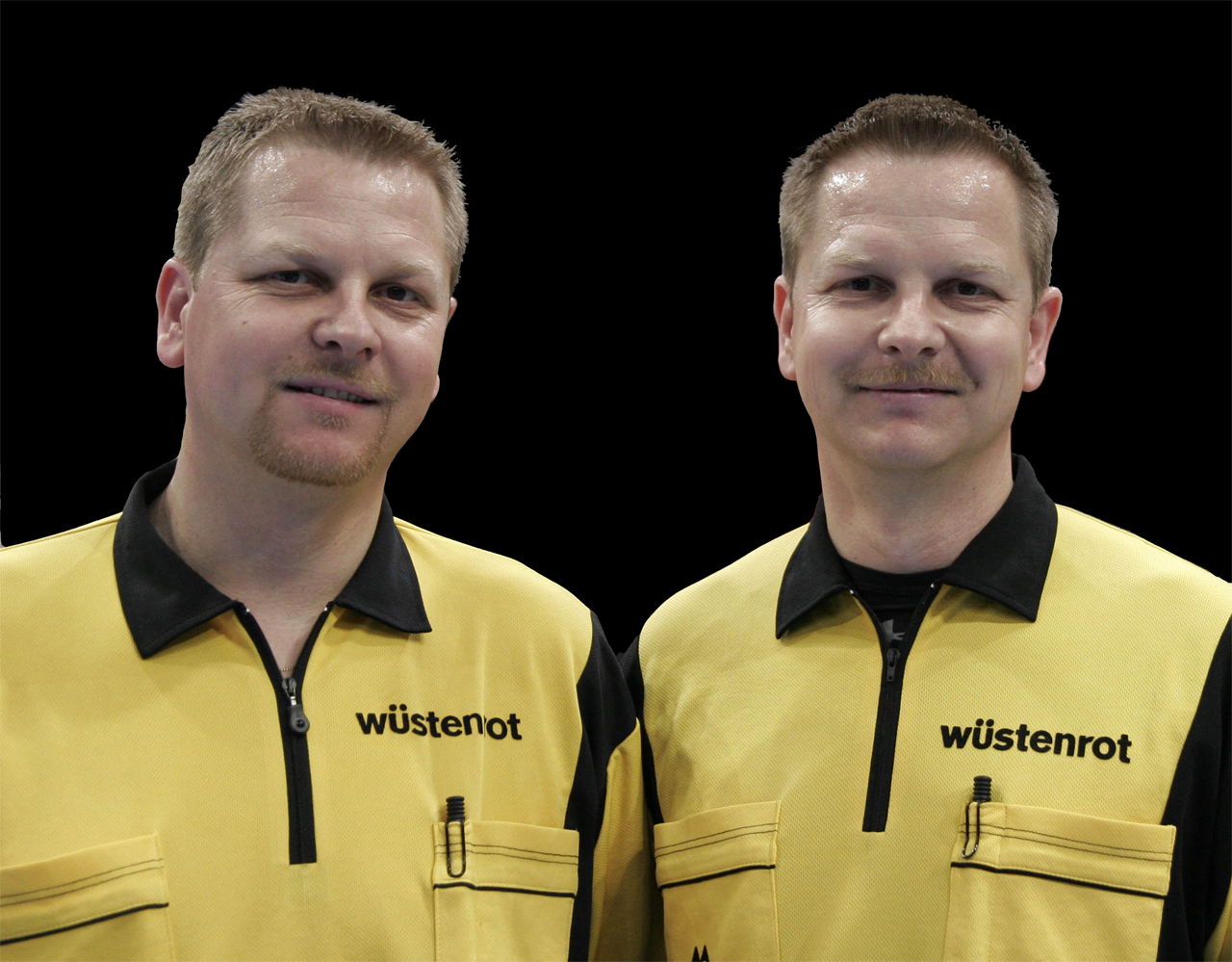 Bernd und Reiner Methe, two famous German handball referees (twins), after the game VfL Gummersbach - HSG Nordhorn.